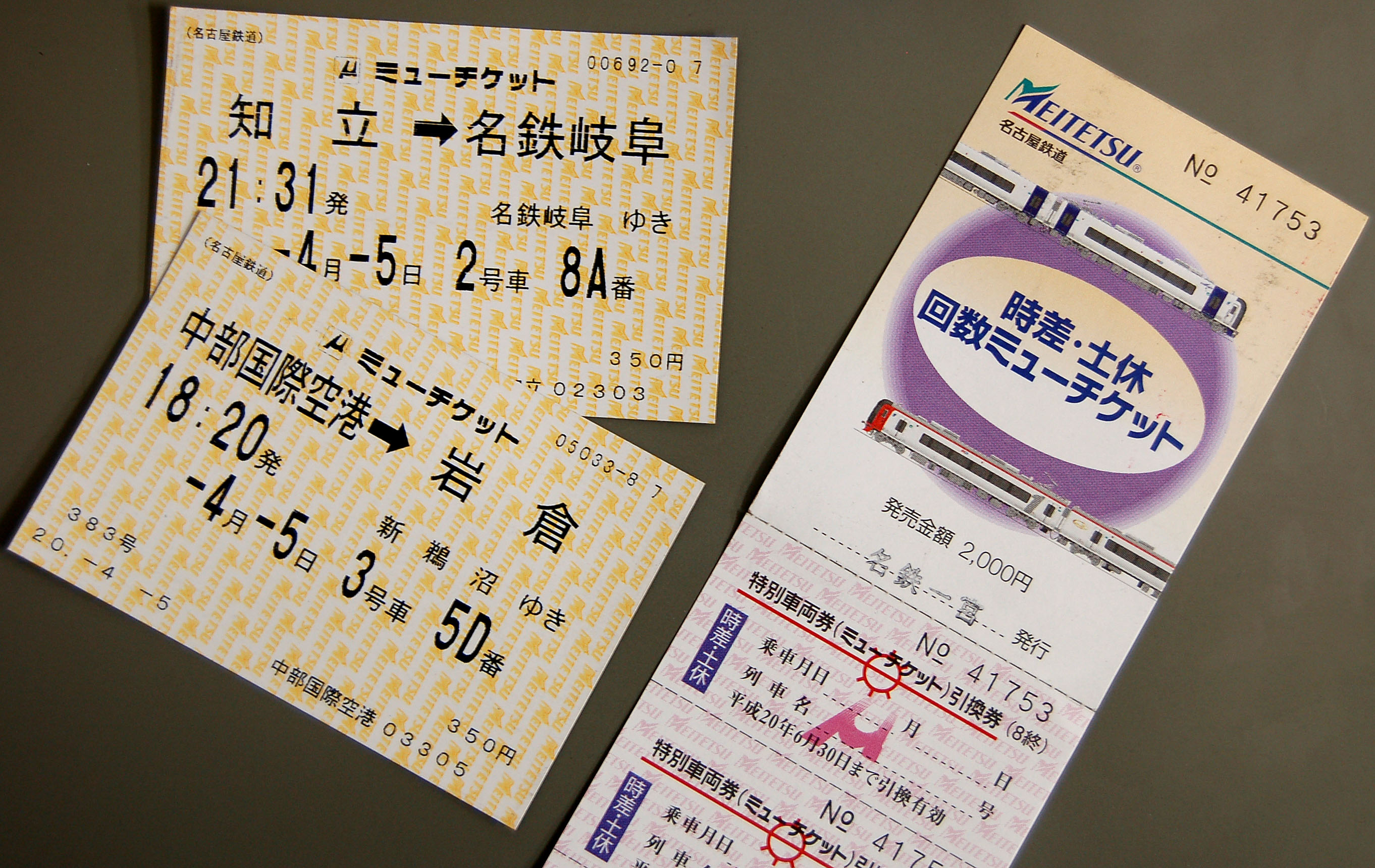 Nagoya Railroad's special seat tickets called "Mu-ticket", Normal tickets(left) and multiple discount ticket(right). 名鉄の特別車両券｢ミューチケット｣。通常の券片(左側2枚)と土日用回数券旧タイプ(右側)。現在は時差土日用回数券も磁気券化された。